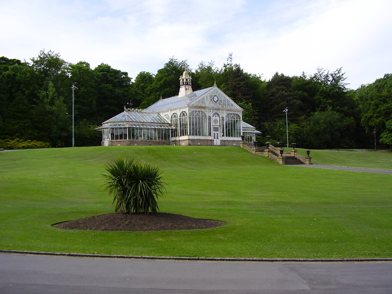 The conservatory in Corporation Park, Blackburn, Lancashire, England.